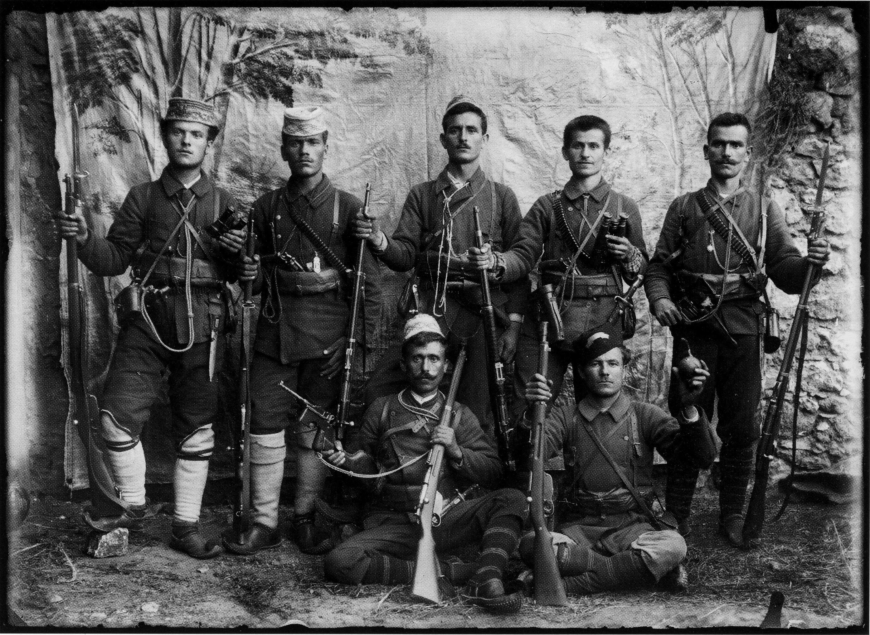 Bulgarian IMARO band in the region of Kastoria.